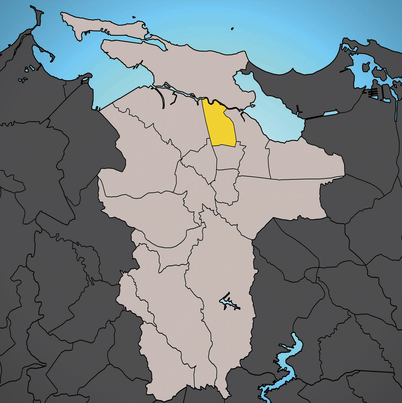 Location of the Hato Rey Central district on the Municipality of San Juan, Puerto Rico.